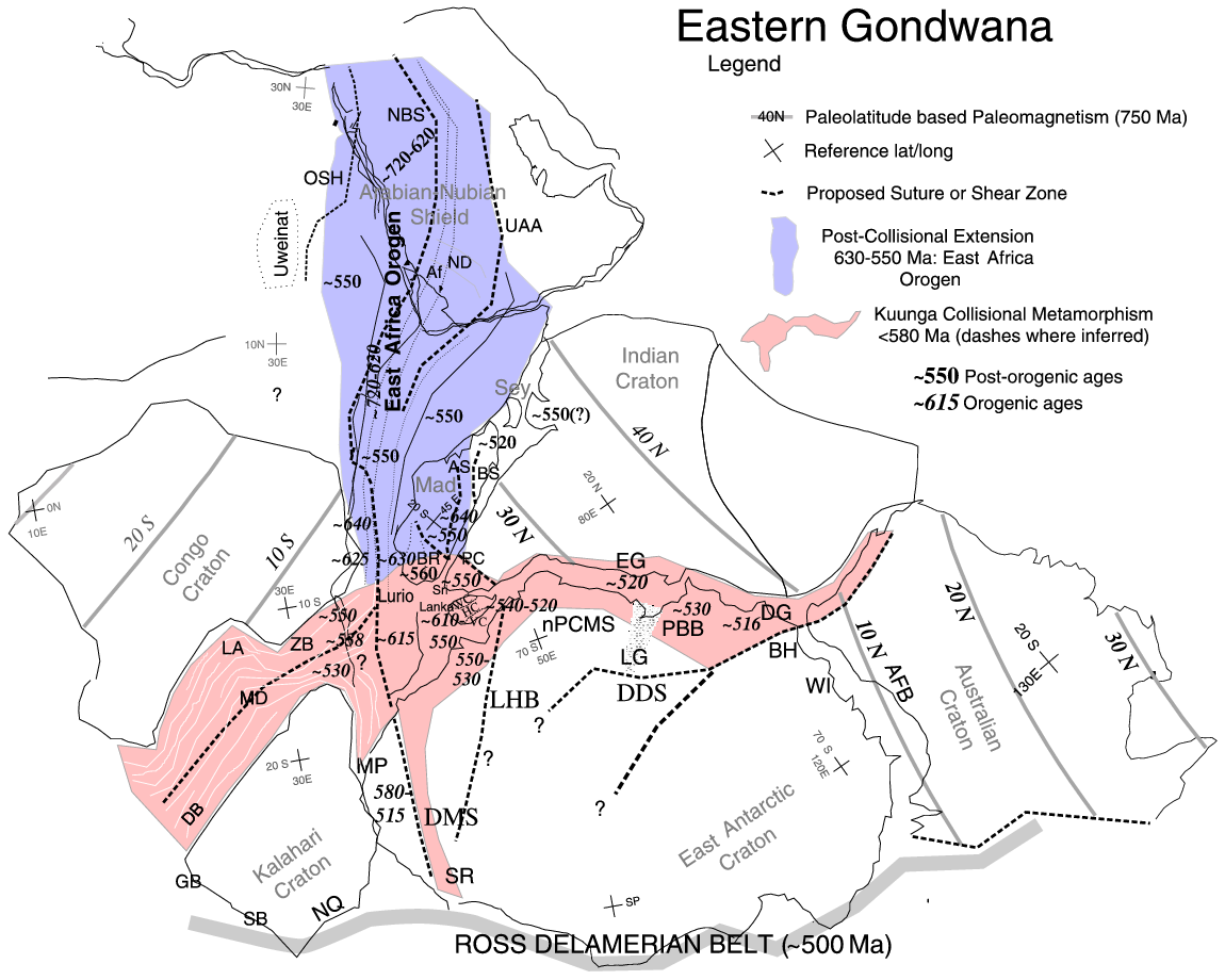 Paleotectonic map of eastern Gondwana with the Pan-African and/or circum-Antarctic orogenic (“mobile”) belts highlighted by age differences (See Fitzsimons, 2000a, cited in Meert, 2003, follow source link below). Meaning of abbreviations: Af = Afif terrane (Saudi Arabia); AFB = Albany-Fraser Belt (Australia); AS = Angavo shear zone (Madagascar); BH = Bunger Hills (Antarctica); BR = Bongolava-Ranotsara shear zone (Madagascar); BS = Betsimisaraka suture zone (Madagascar); DB = Damara Belt (Africa); DDS = Darling-Denman suture (Antarctica - Australia); DG = Denman Glacier (Antarctica); DMS = Dronning Maud suture (Antarctica); EG = Eastern Ghats (India); GB = Gariep Belt (Africa); HC = Highland Complex (Sri Lanka); LA = Lufilian Arc (Africa); LG = Lambert Graben (Antarctica); LHB = Lützow-Holm Belt (Antarctica); MD = Mwembeshi Dislocation (Africa); MP = Maud Province (Antarctica); NBS = Nabitah Suture (Arabia); nPCSM = Northern Prince Charles Mountains (Antarctica); NQ = Namaqua Belt (Africa); OSH = Onib-Sol Hamed suture (Arabia); PBB = Prydz Bay Belt (Antarctica); PC = Paughat-Cauvery (India); SB = Saldania Belt (Africa); SR = Shackelton Range (Antarctica) ; UAA = Urd Al Amar suture (Arabia); VC = Vijayan Complex (Sri Lanka); WC = Wanni Complex (Sri Lanka); WI = Windmill Islands (Antarctica); ZB = Zambezi Belt (Africa).